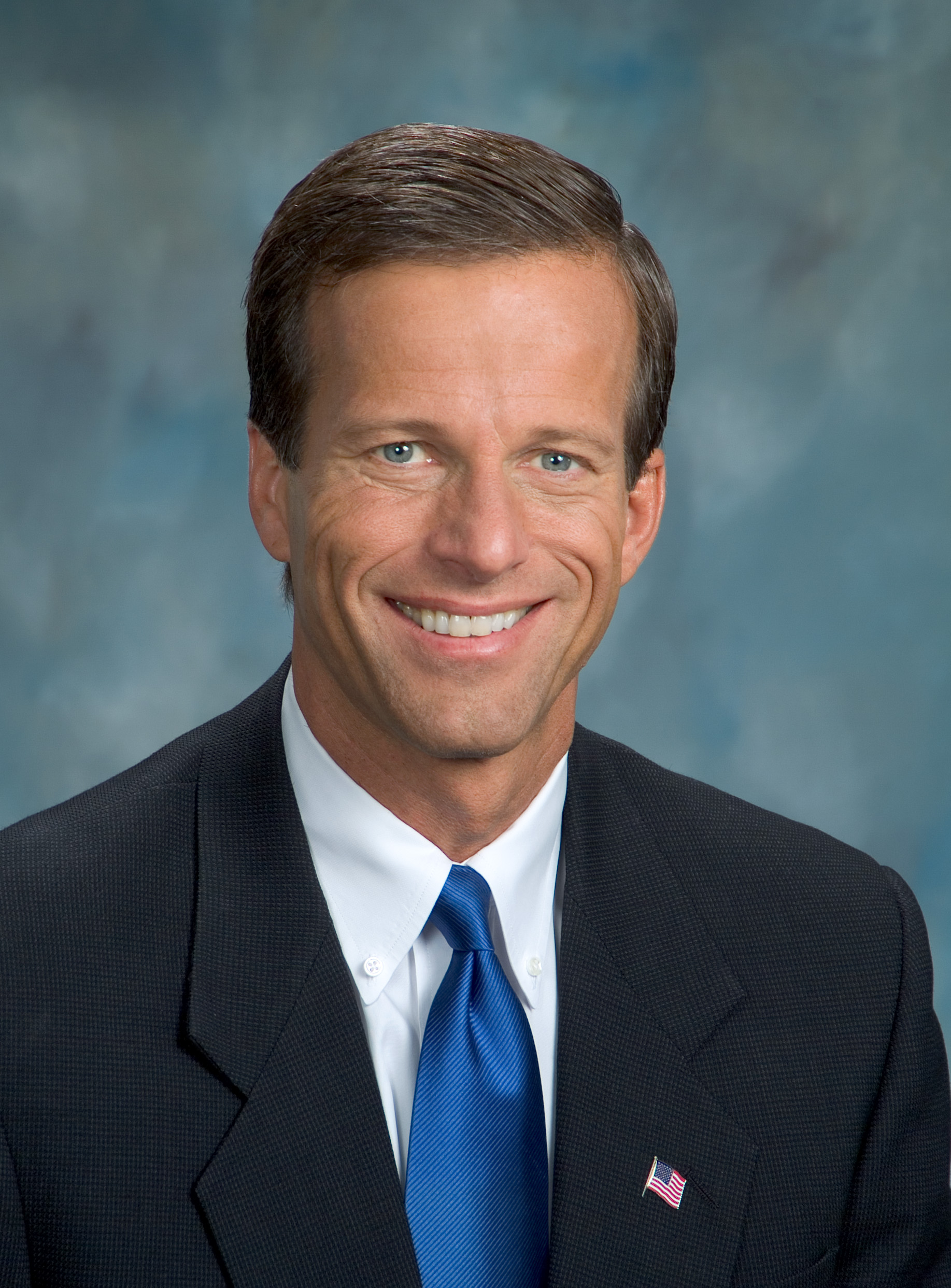 Official photograph of John Thune, U.S. Senator from South Dakota